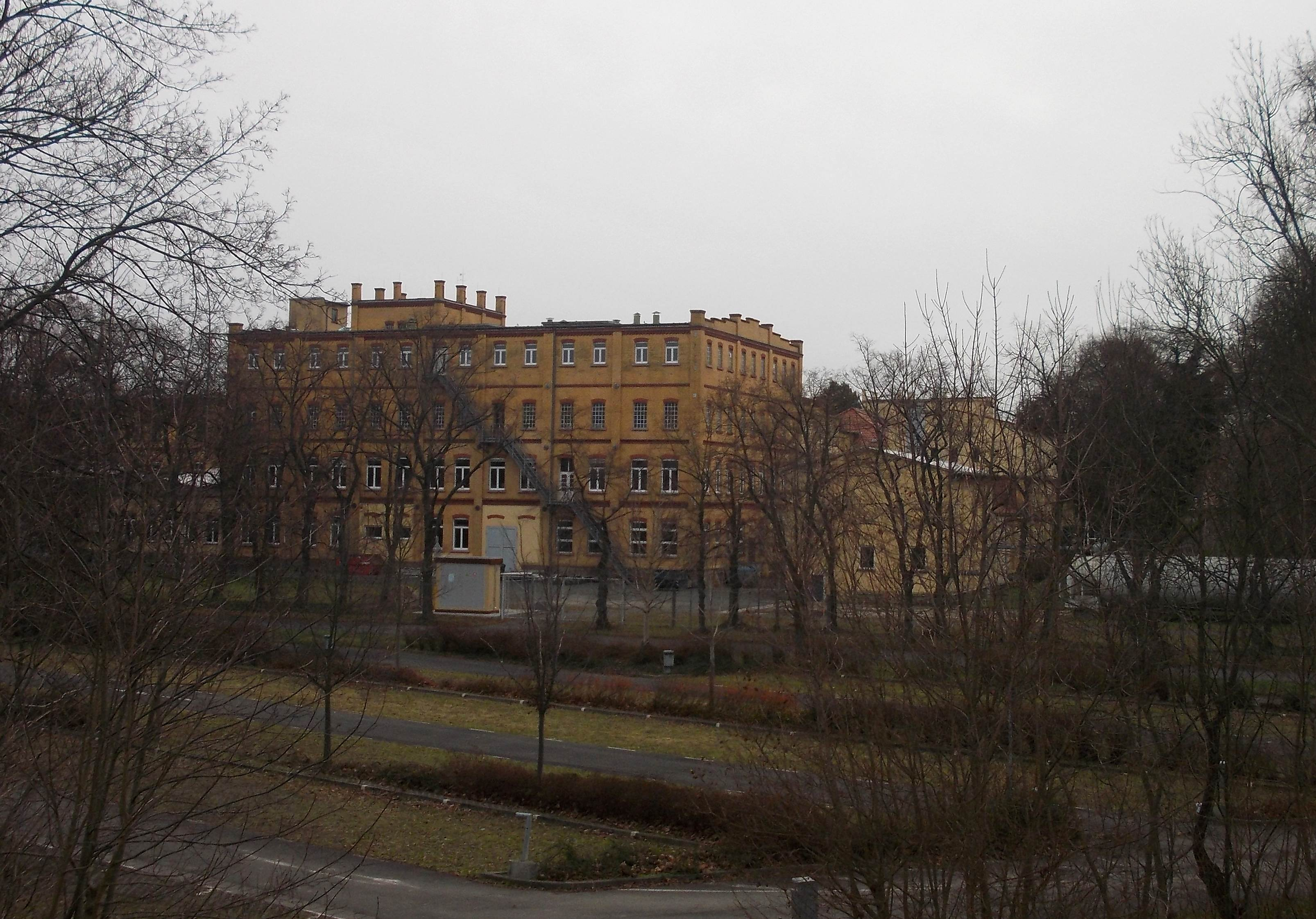 Felt factory in Wurzen (Leipzig district, Saxony)